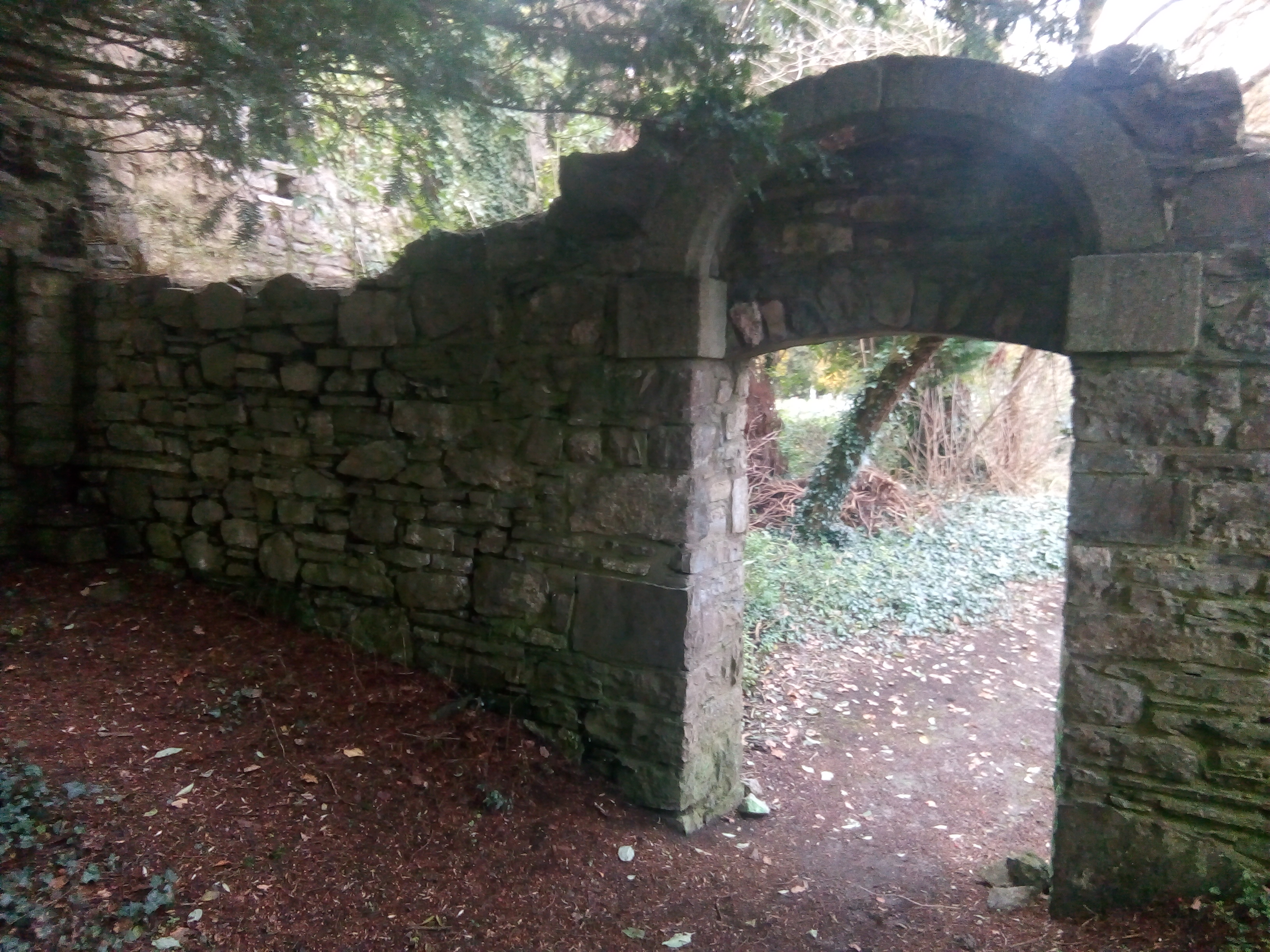 St Patricks Staffan arched doorway